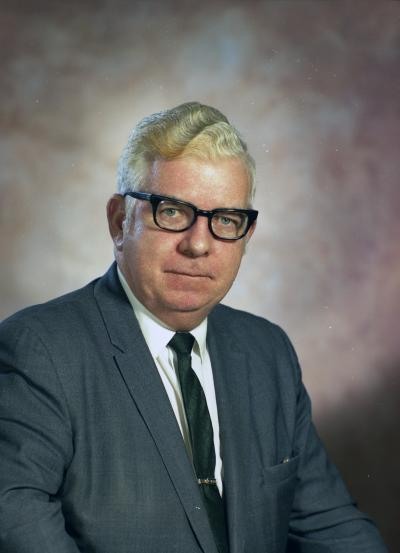 Representative P. J. Gallagher, 1971